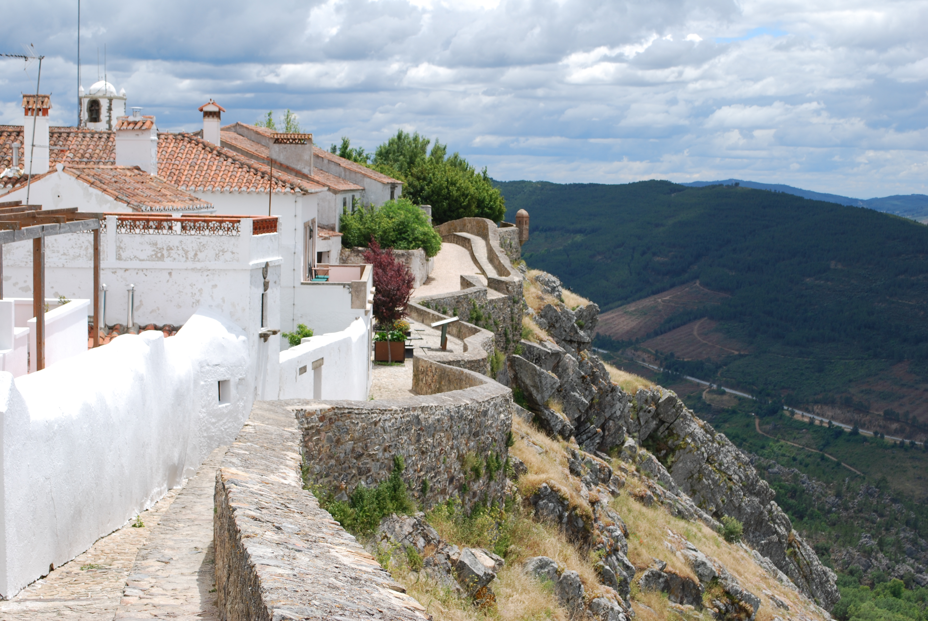 This file was uploaded for Wiki Loves Monuments in Portugal with the unique identifier 71821.